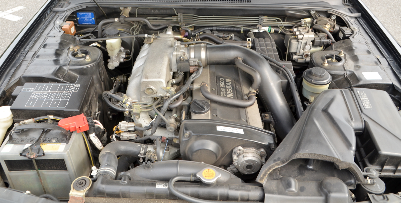 Nissan RB25DE engine